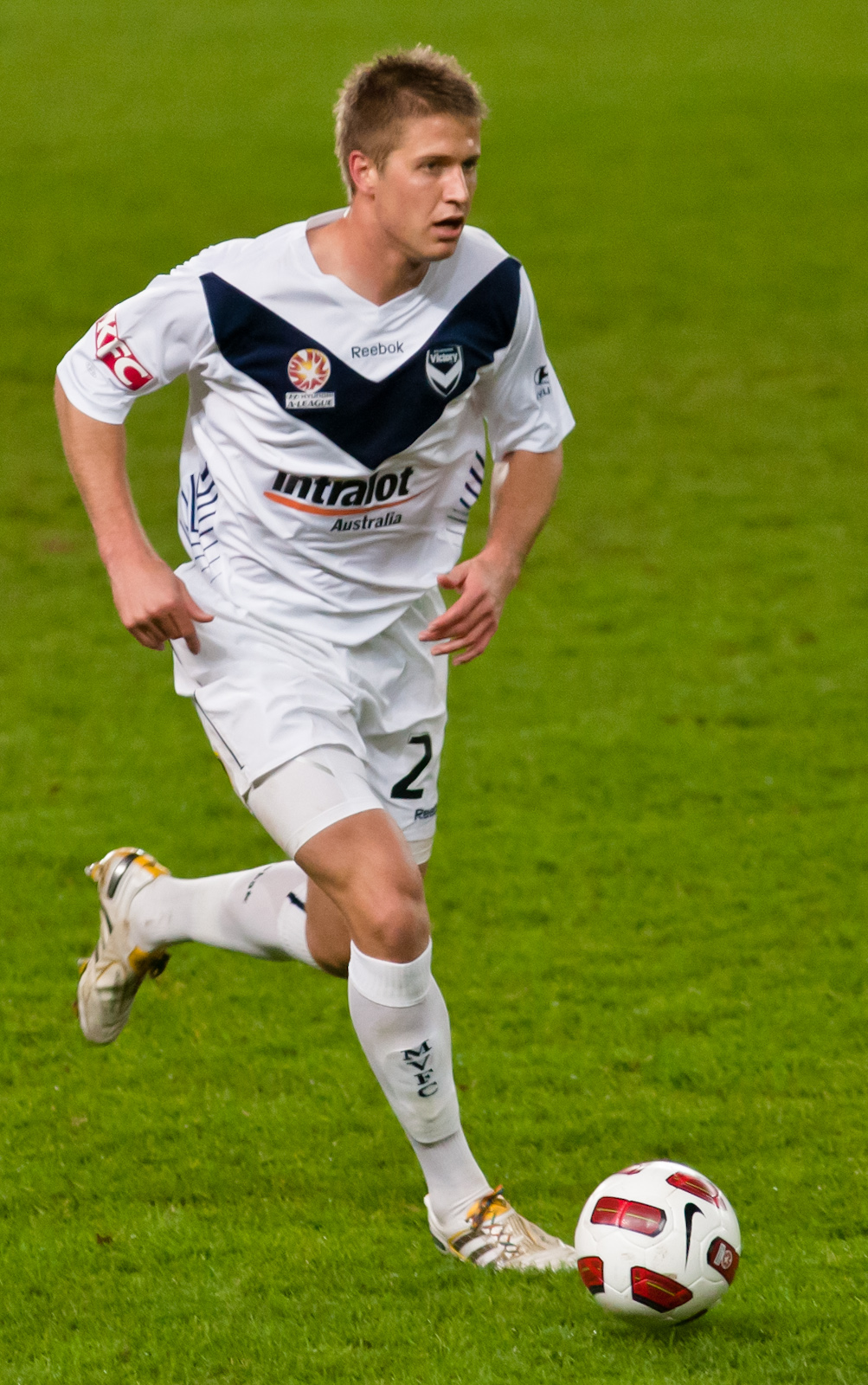 Adrian Leijer playing for Melbourne Victory FC in Round 1 of the 2010-11 A-League against Sydney FC.